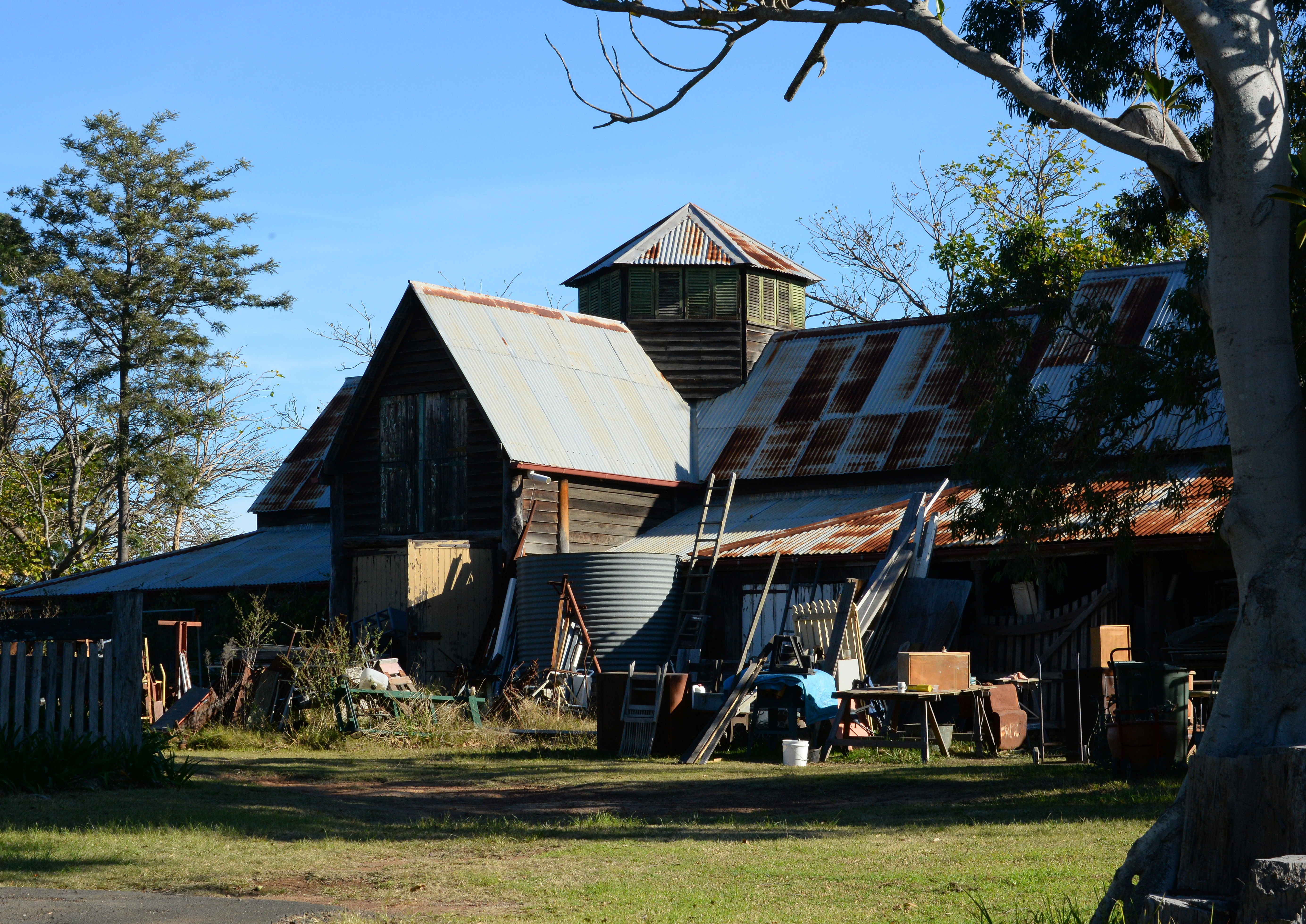 Merriville, Kellyville Ridge, Sydney -- this building was part of the original Jonas Bradley property and predated Merriville